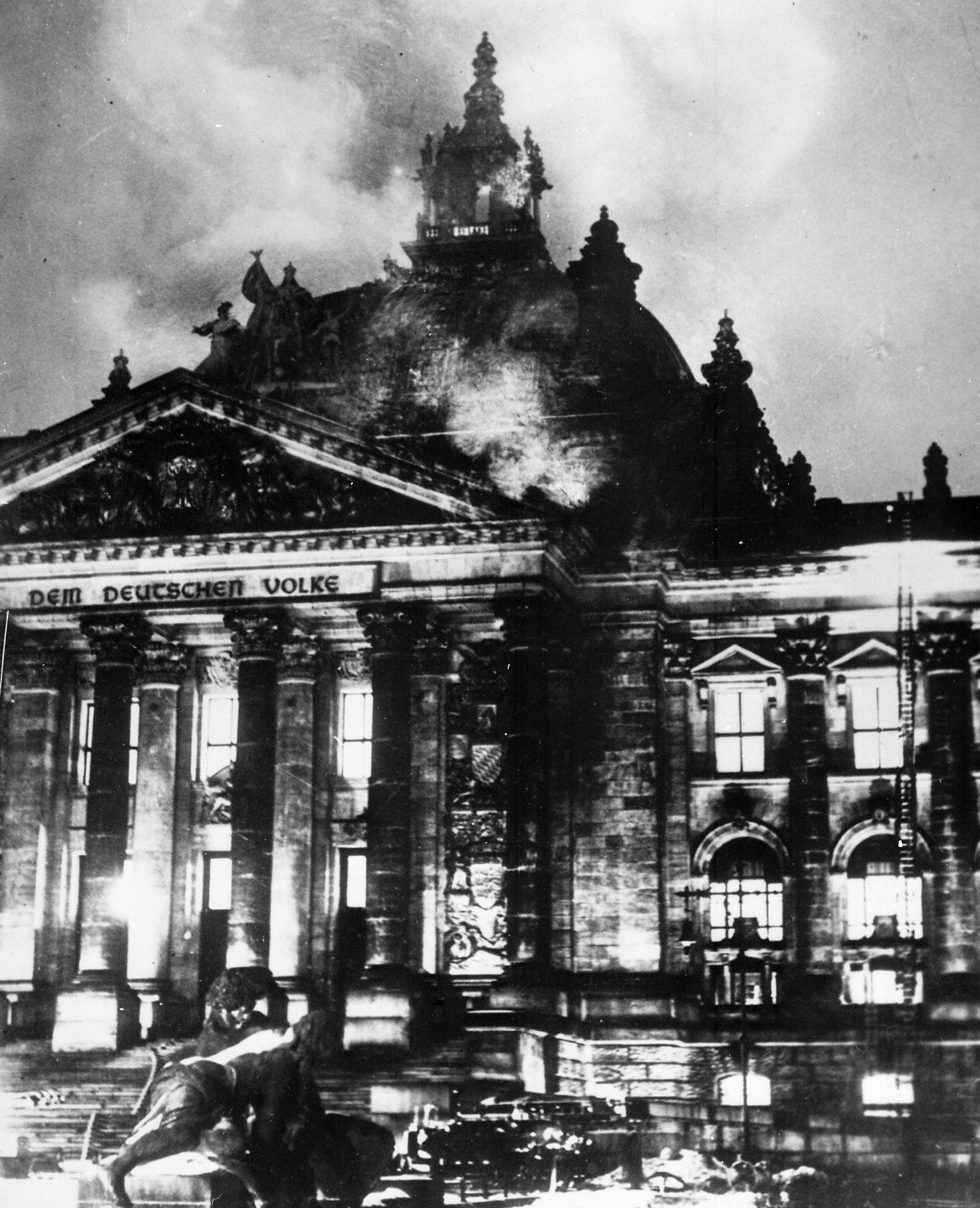 Firemen work on the burning Reichstag